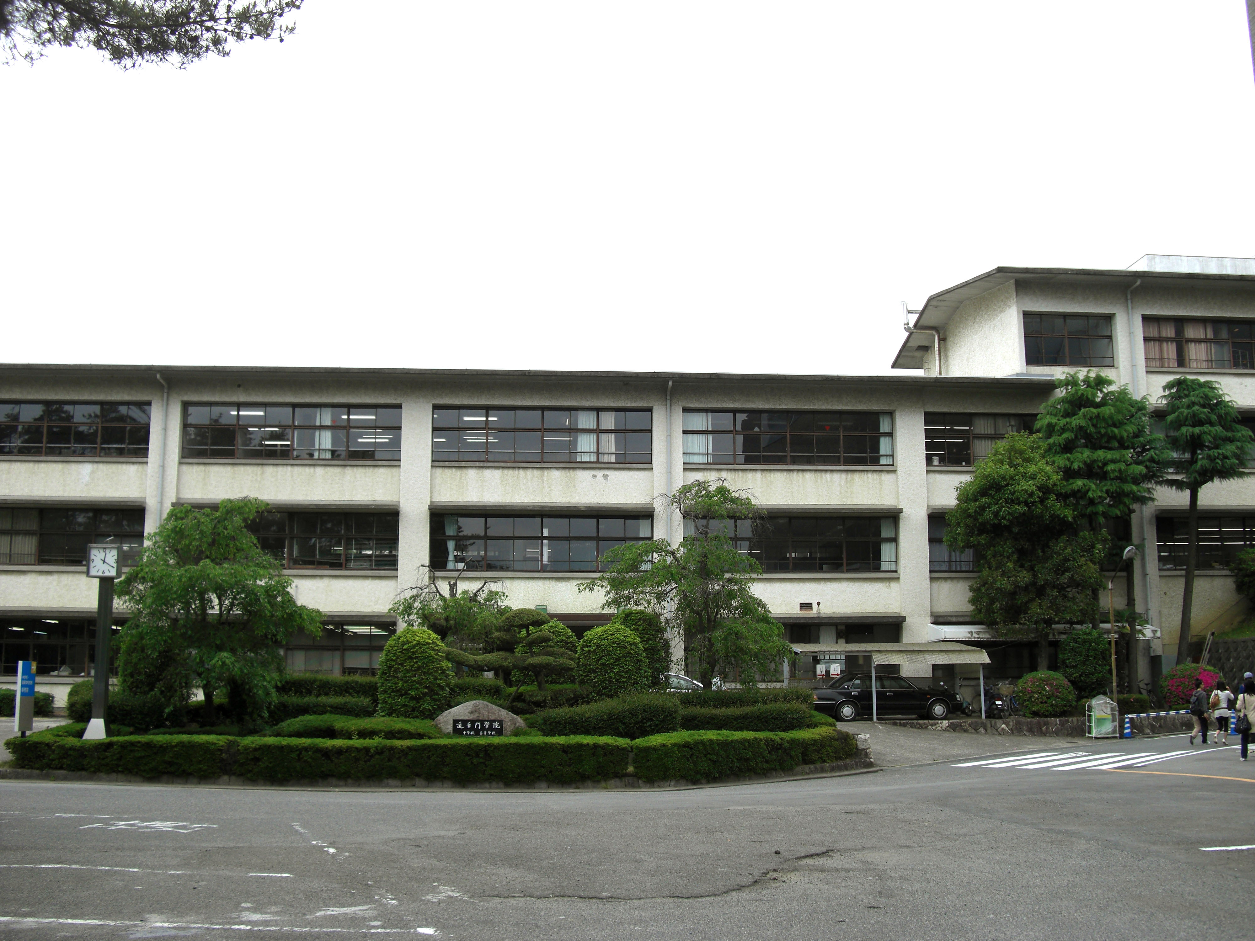 Otemon Gakuin Junior & Senior High School,Nishiai Ibaraki-City Osaka Japan.